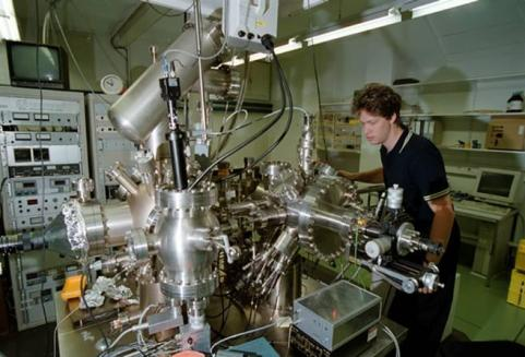 Laboratory installation of an AFM, University of Basel, Institute of Physics